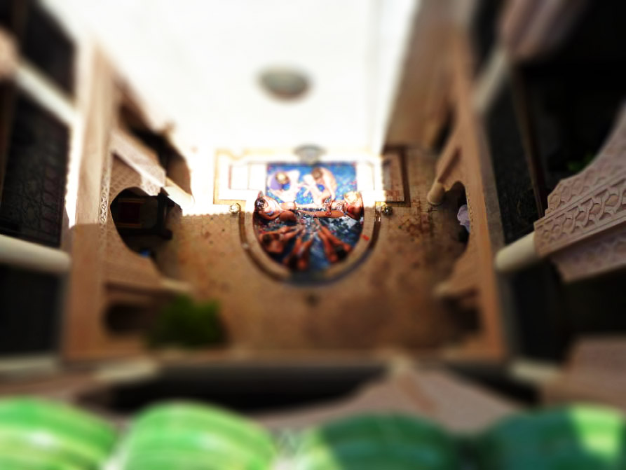 The Cooling effect of the Riad Laksiba Courtyard is no accident. Design: A water feature at the base of a Riad courtyard serves two purposes. Firstly, the obvious focal point but more importantly, the courtyards oper-air aperture channels warm air entering into the Riad which inturn passes over the water feature, cools down, thus assisting in the convection of heat to exit back through the Riad's open-air aperture. This style of natural air-conditioning has been prevelent in Morocco for millenia and is remarkably sucessful.